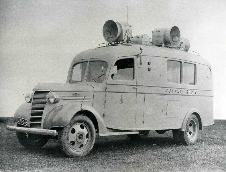 A radio van on the chassis of Chevrolet 1938 T-series (either 131.5"-wheelbase Model TB or 157"-WB TD)